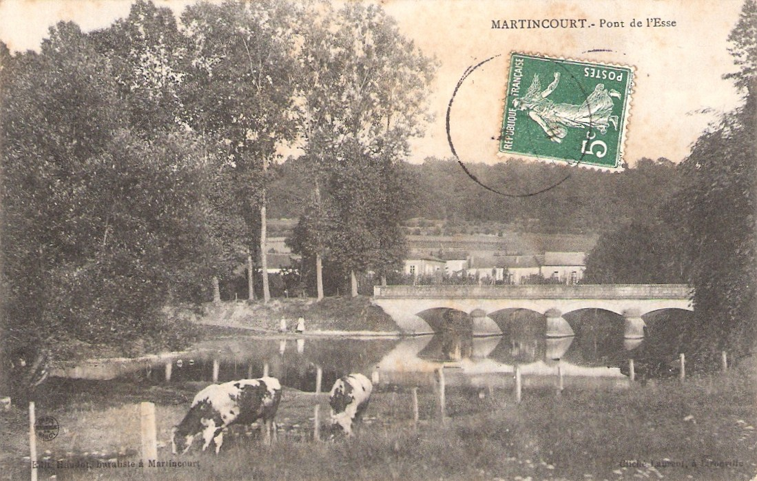 Old post card of Martincourt (Meurthe-et-Moselle ; France). Esse bridge.